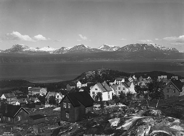 Narvik, Norway in 1928 with view of Rombakfjorden